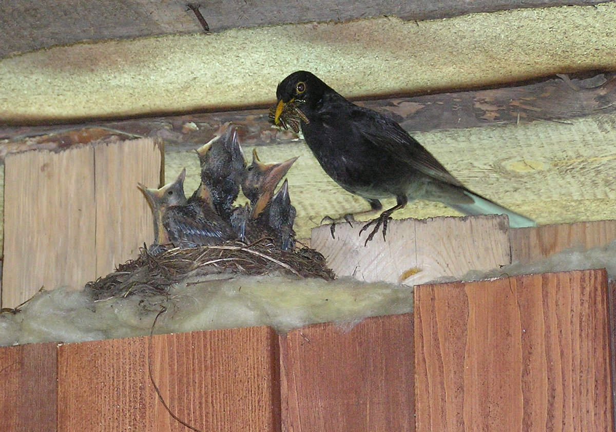 Turdus merula